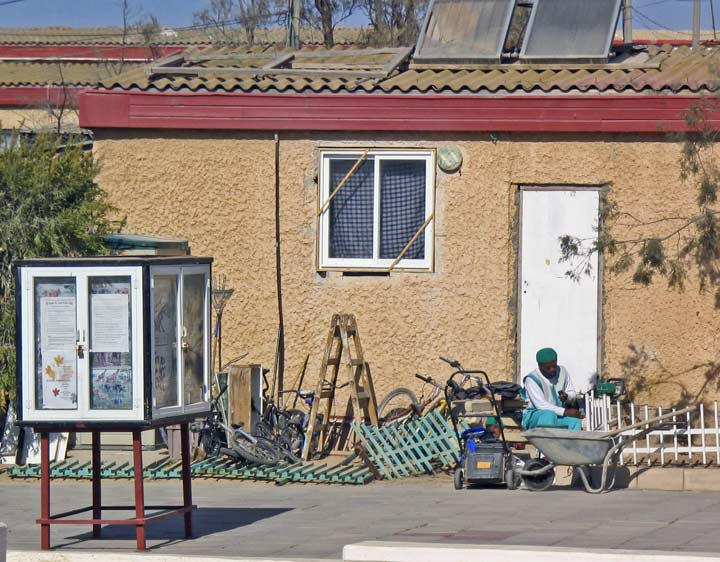 A view of the Dimona village of African Hebrew Israelites of Jerusalem, an African -American group who consider that a part of black populations have Hebrews as ancestors. The group has a part of its members who live today in Israel, in major part in Dimona.